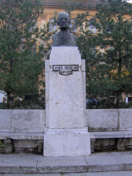 The bust of Emanuil Ungurianu (1845-1929) by Gheorghe Groza (1899–1930), Iancu Huniade Square, Timisoara